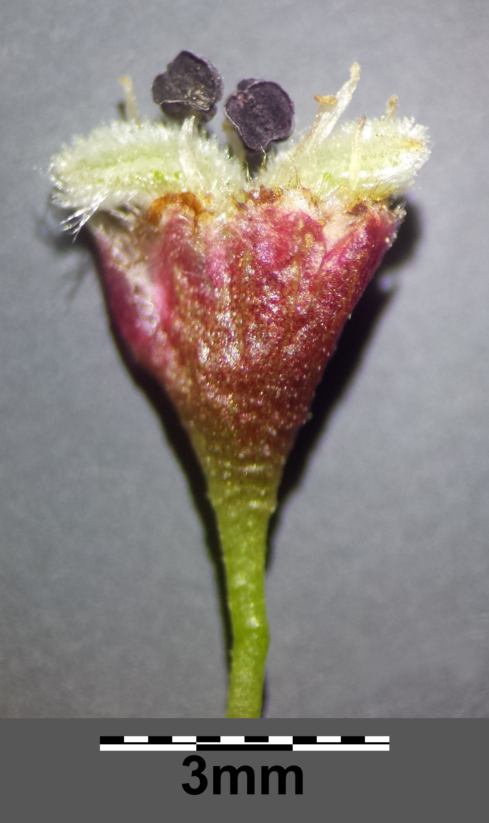 Flower Taxonym: Ulmus laevis ss Fischer et al. EfÖLS 2008 ISBN 978-3-85474-187-9 Location: Donauauen near Schönau an der Donau, district Gänserndorf, Lower Austria - ca. 150 m a.s.l. Habitat: riparian wood